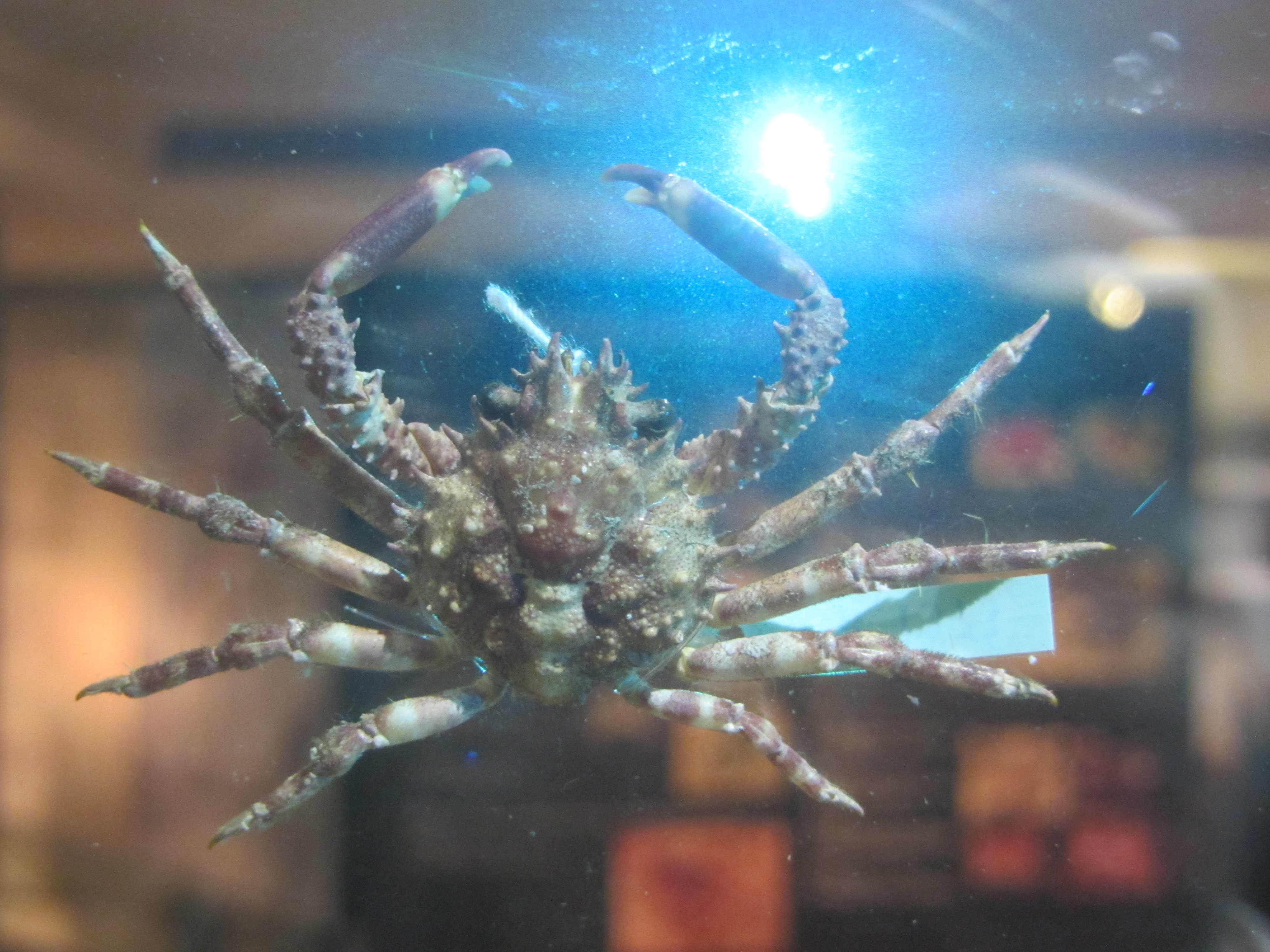 Specimen of Schizophrys aspera